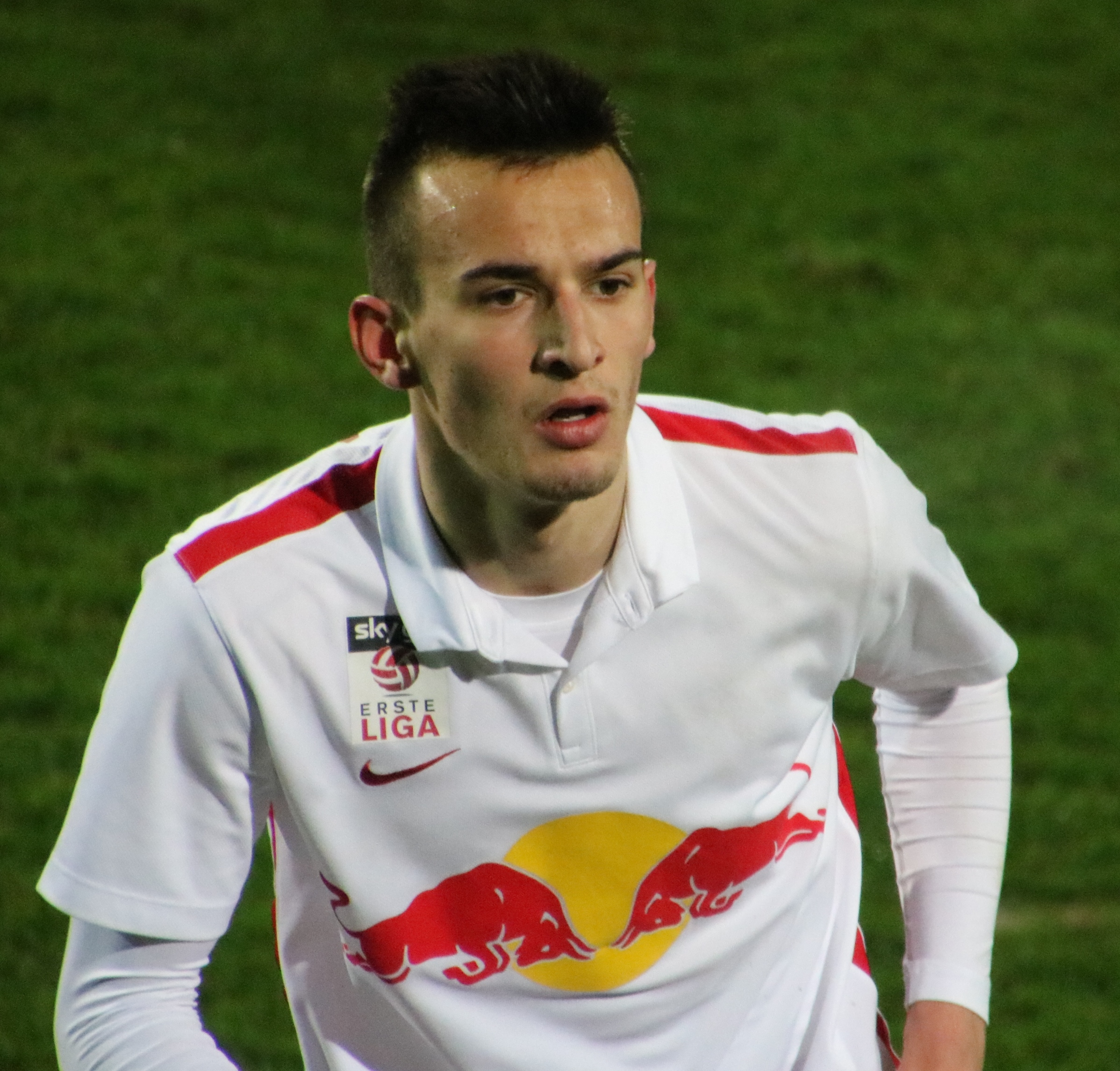 League match Austria 2nd league